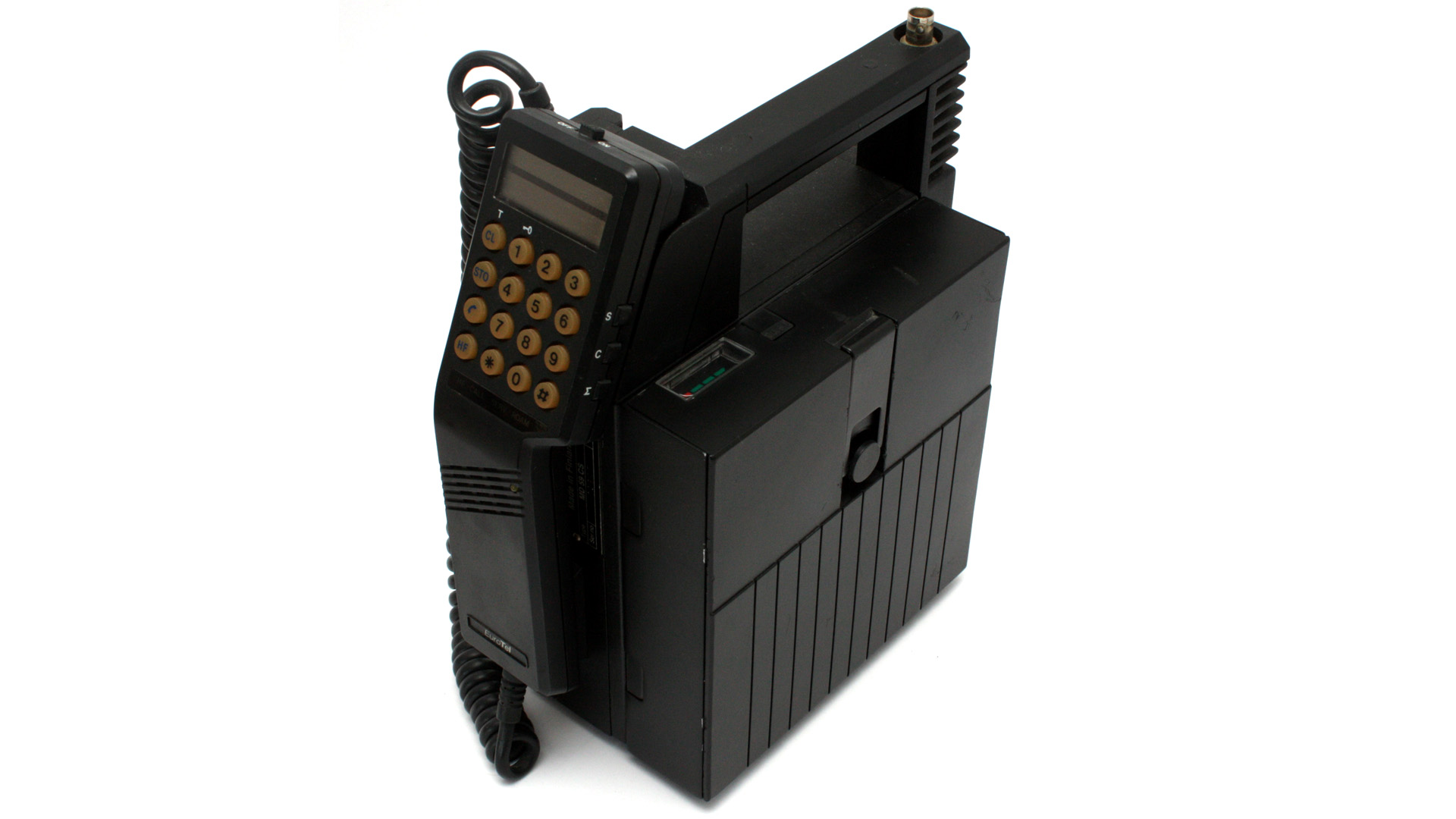 Nokia Talkman (Czech version MD59) NMT phone.